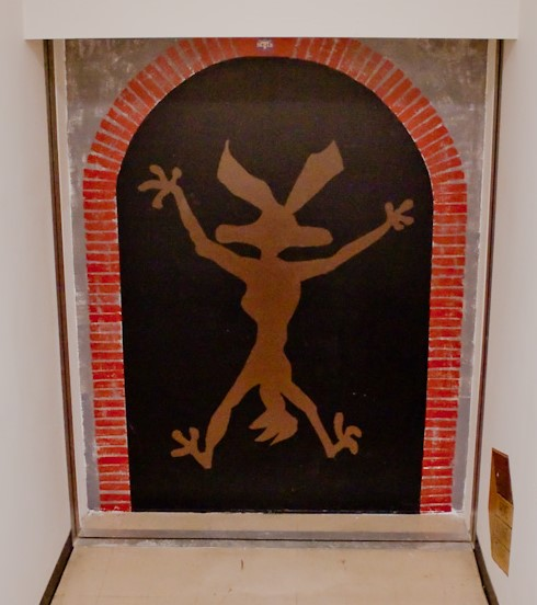 You can find this on the third floor of Building 9 at MIT, in the corridor that should lead to Building 7 (but doesn't). See the next photo for a higher quality shot, and to see what that thing on the right is.